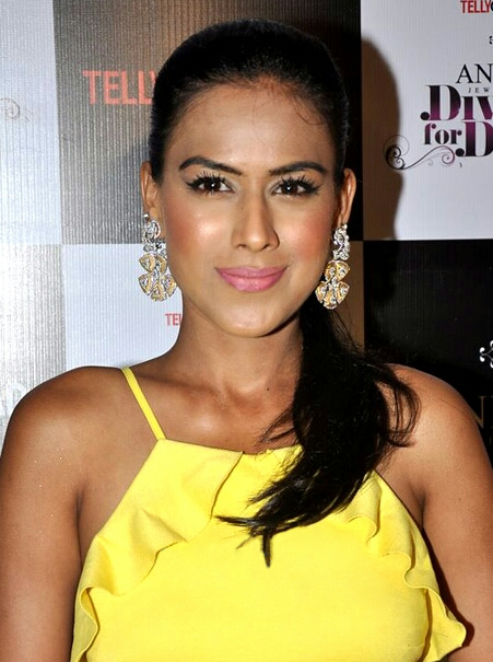 Nia Sharma at Tellychakkar's bash